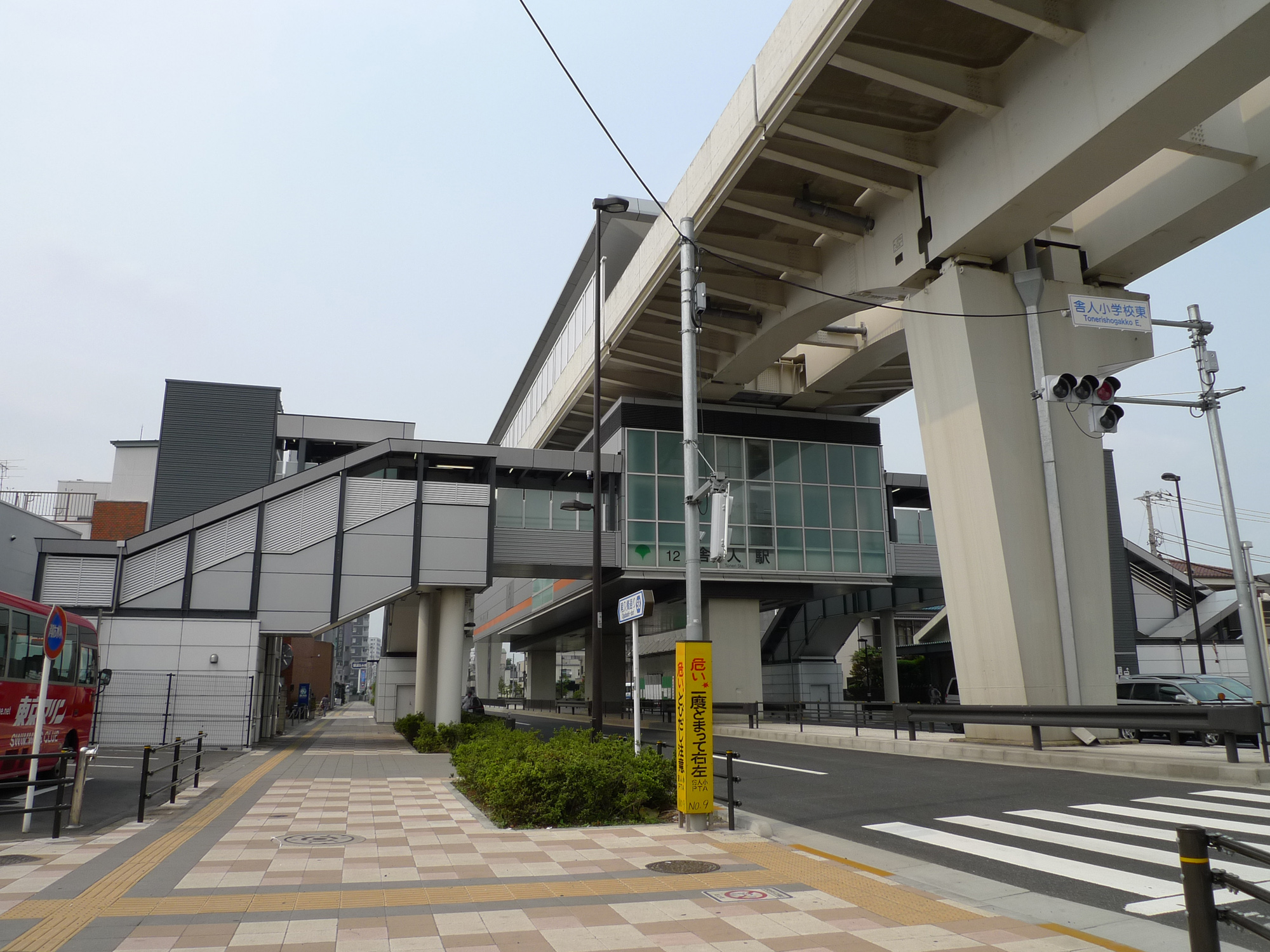 Toneri Station,Nippori-Toneri Liner.